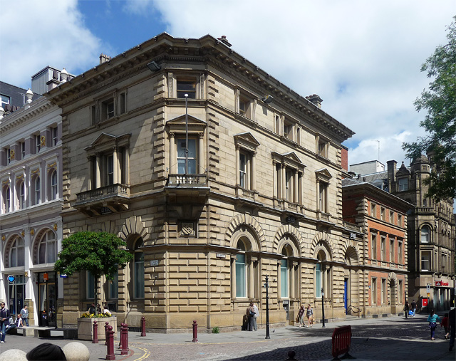 Photograph of 25 St Ann's Street, Manchester, England